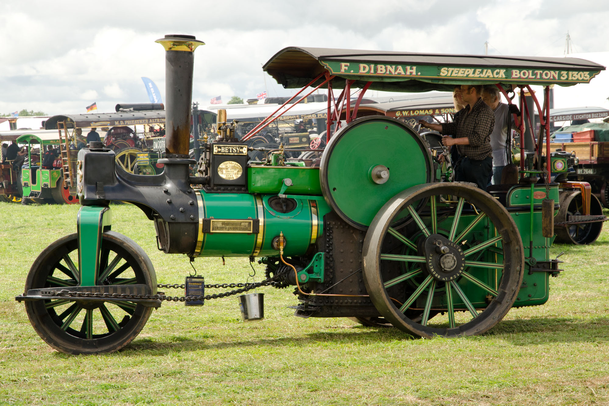 Cheshire Steam Fair 13/07/2014